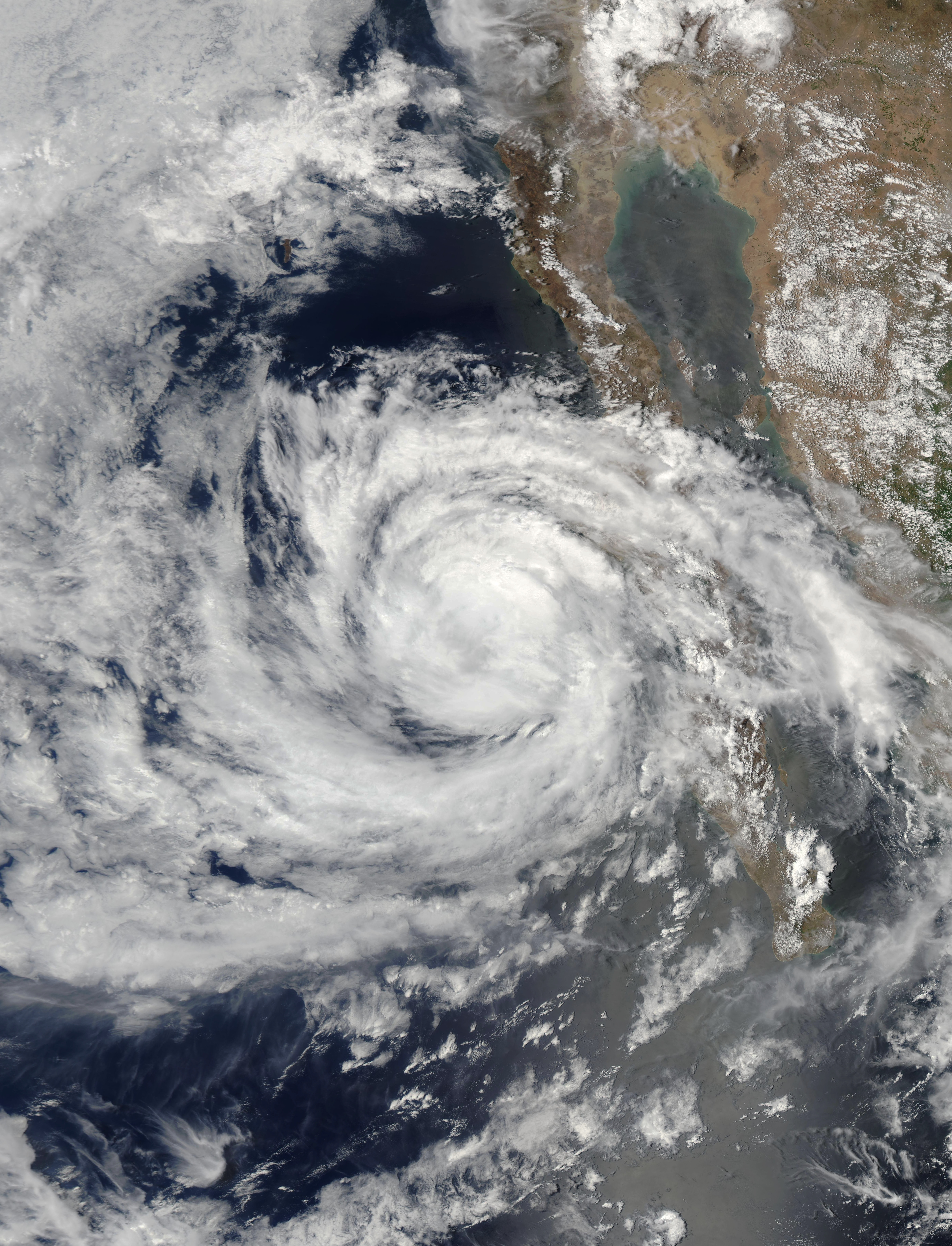 Tropical Storm Emilia skirted the coast of Baja California as it moved northwest into the Pacific Ocean on July 26, 2006. When the Moderate Resolution Imaging Spectroradiometer (MODIS) on NASA’s Aqua satellite captured this image at 1:35 p.m. Pacific Daylight Time (20:25 UTC), the storm had sustained winds of 100 kilometers per hour (65 miles per hour) with stronger gusts. Though these winds were still about ten miles per hour under hurricane status, Emilia has the distinct spiraling clouds and round shape that mark a hurricane. In the hours after this image was taken, Emilia moved out over the Pacific Ocean and degraded into a tropical depression, said the National Hurricane Center. The large image provided above is at MODIS’ maximum resolution of 250 meters per pixel. The image is available in additional resolutions from the MODIS Rapid Response Team.